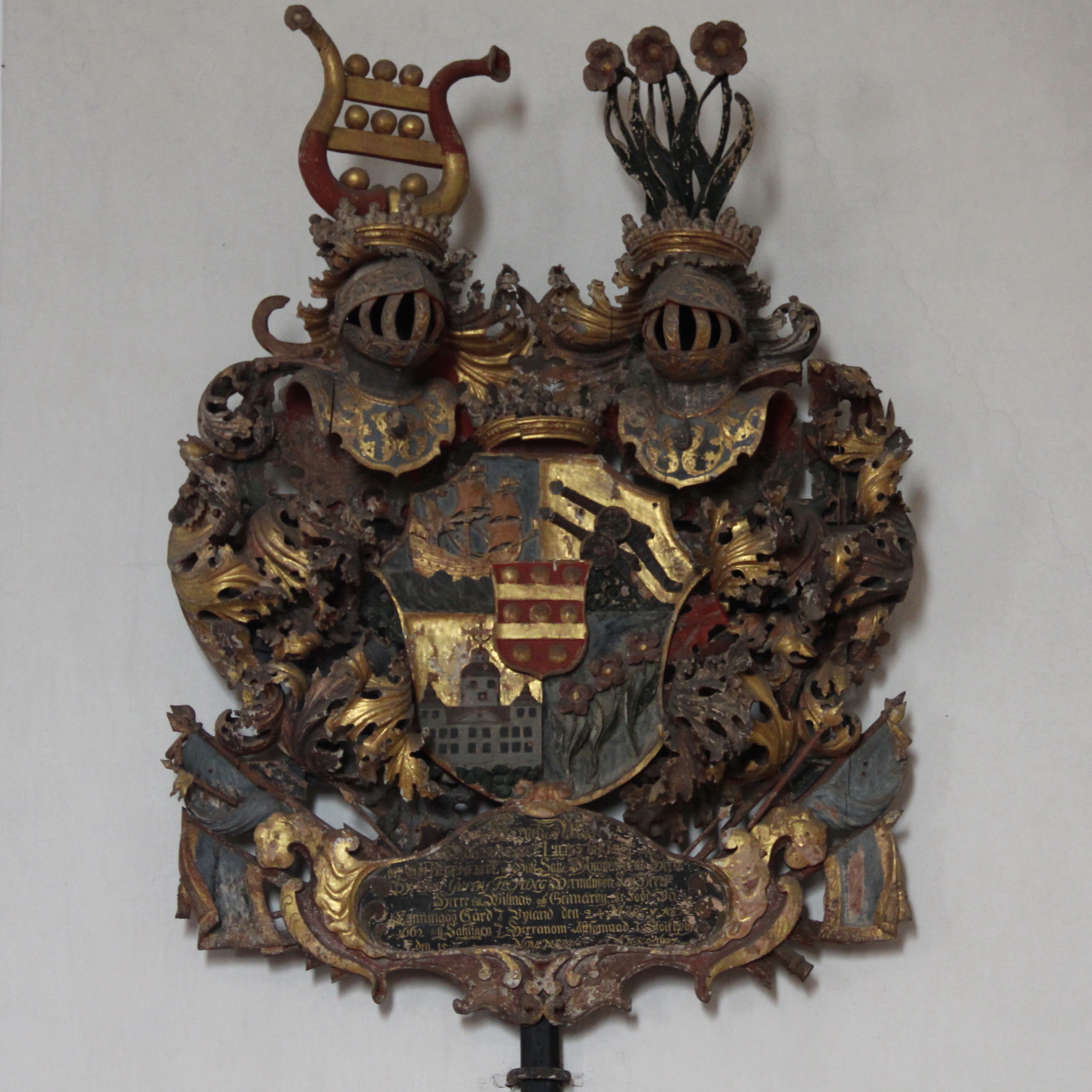 Askainen church, Askainen, Masku, Finland. - Funeral escutcheon of Gustaf Fleming (d. 1687) on northern church chancel wall. Closer look.